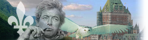 Presentation banner for the Quebec portal on the French language Wikipedia.